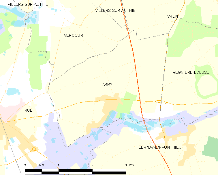 Map of French municipality Arry